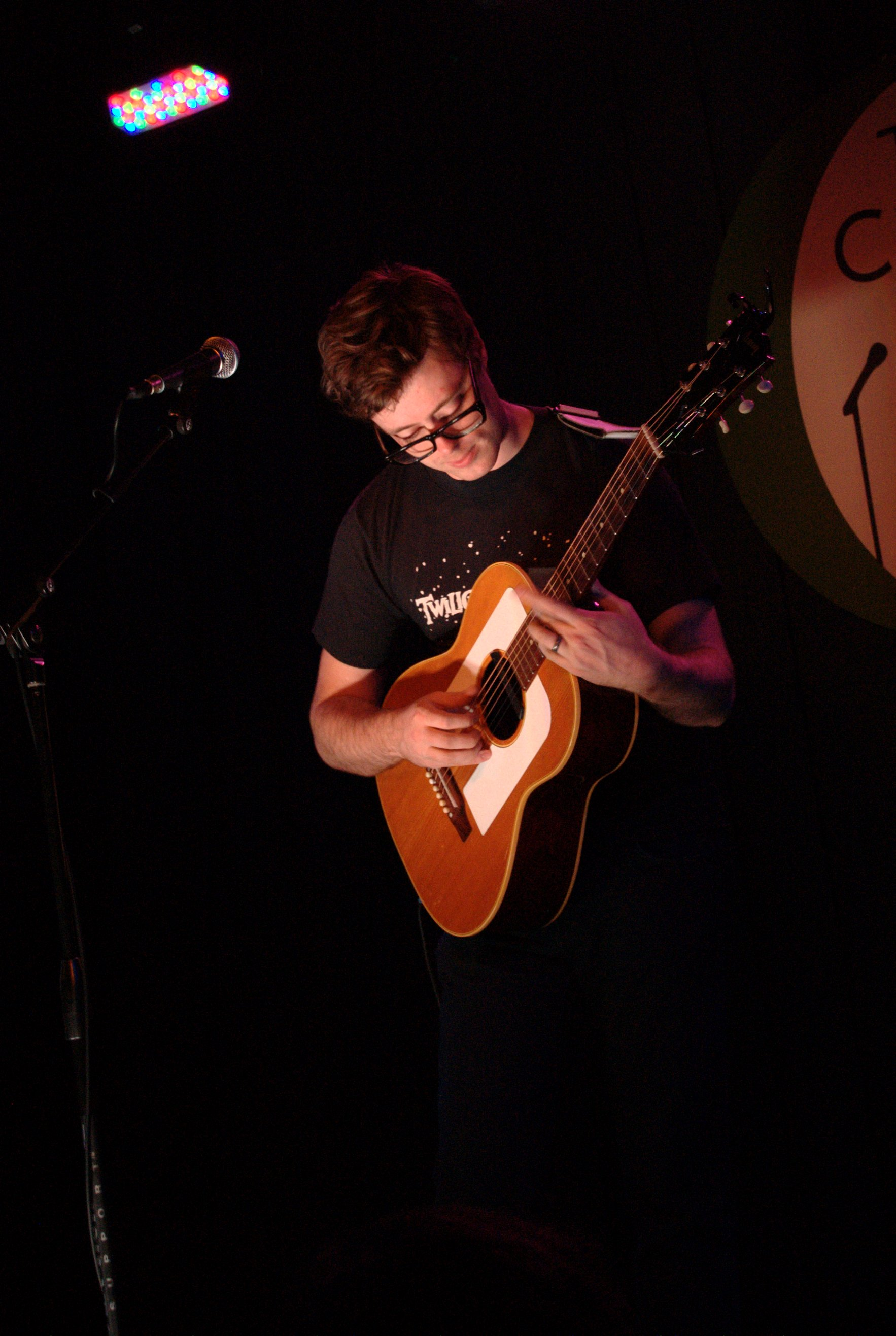 Jeremy Messersmith at The Cabin